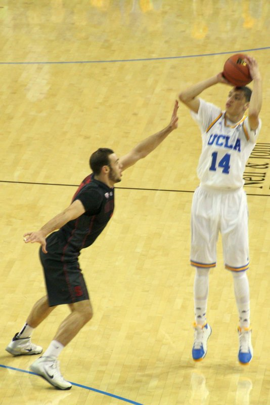 Zach Lavine of UCLA Bruins against Stanford Cardinal